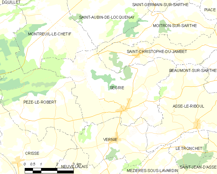 Map of French municipality